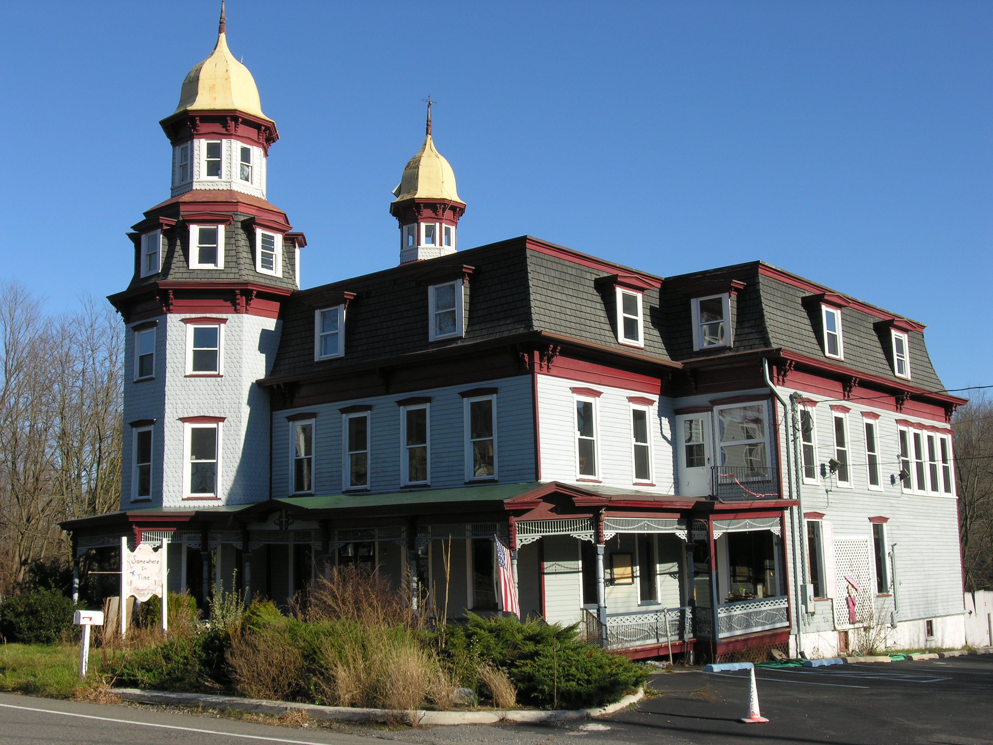 The former Hainesburg Inn (presently Animal Mansion, a veterinary hospital) on Route 94 is considered by many to be the signature piece of architecture in Knowlton. Local legend has it that the third floor is haunted by the ghost of a young boy.